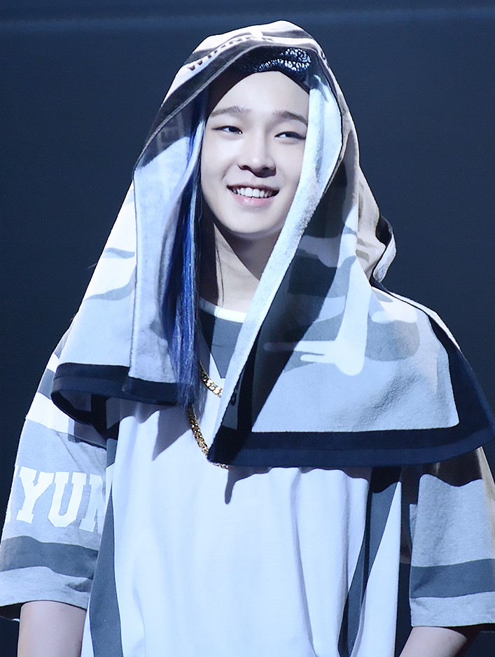 Taehyun performing at WINNER Japan Tour in Aichi, on October 9, 2015.